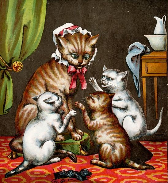 (Removed after reusableart request.)